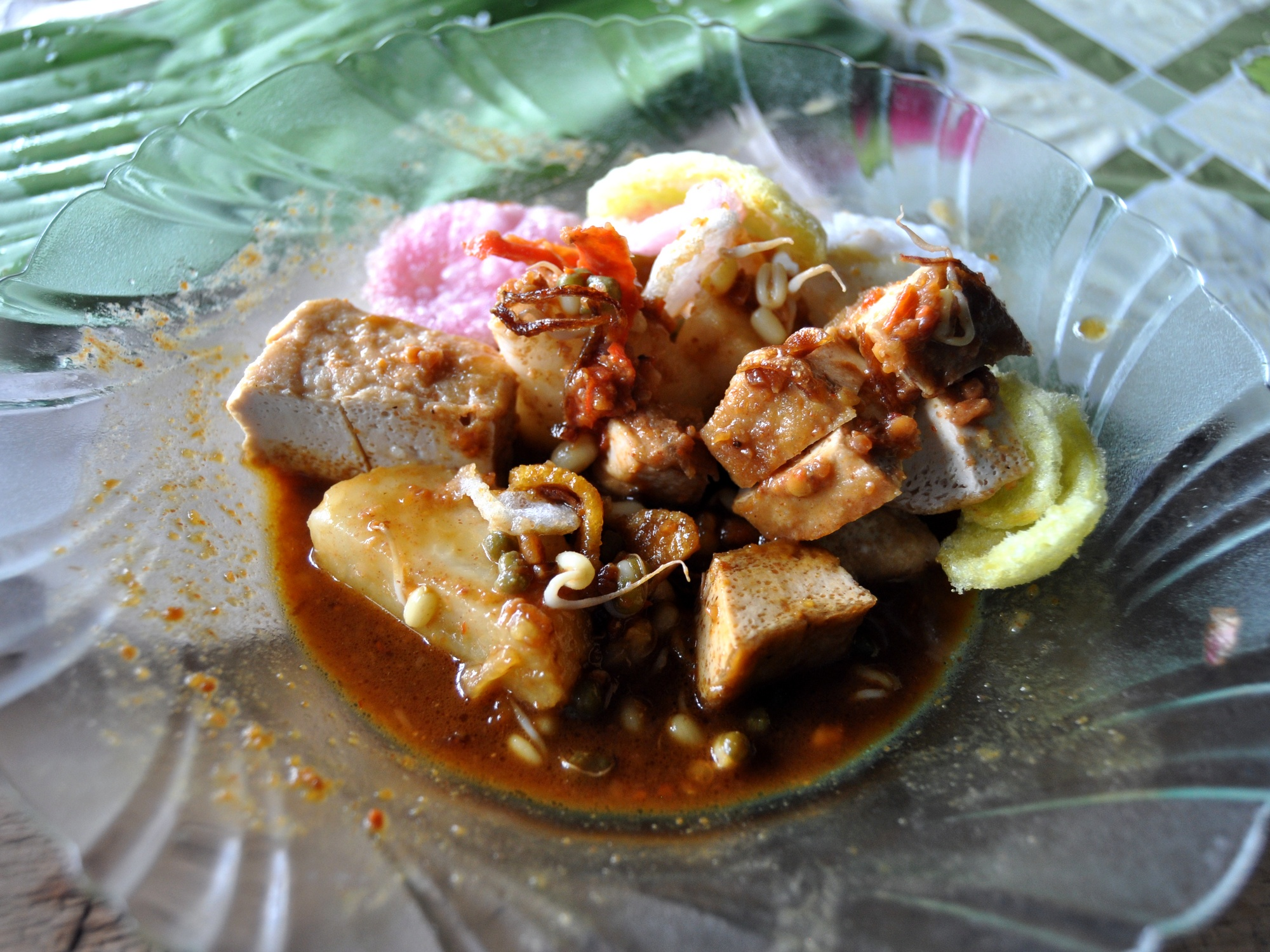 Tahu masak, a traditional tofu-based food from Banyumas Regency, Central Java, Indonesia.